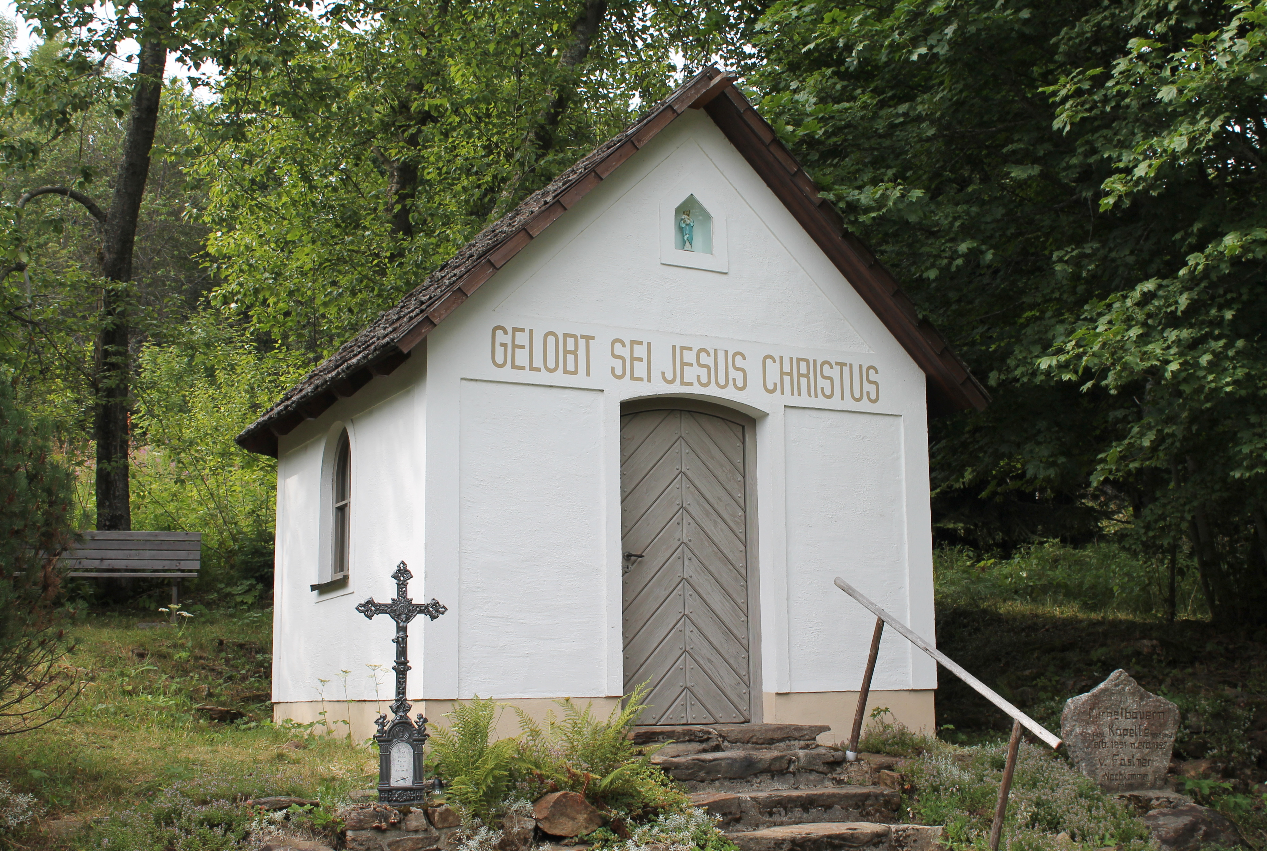 Chapel of Saint Michael, Bučina, Kvilda, Prachatice District, Czech Republic